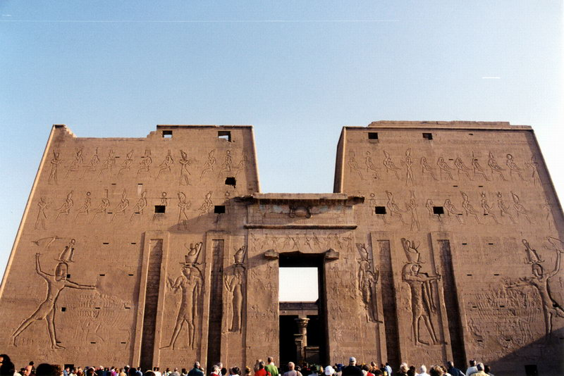 Edfu Temple : Entrance to the temple dedicated to the god Horus